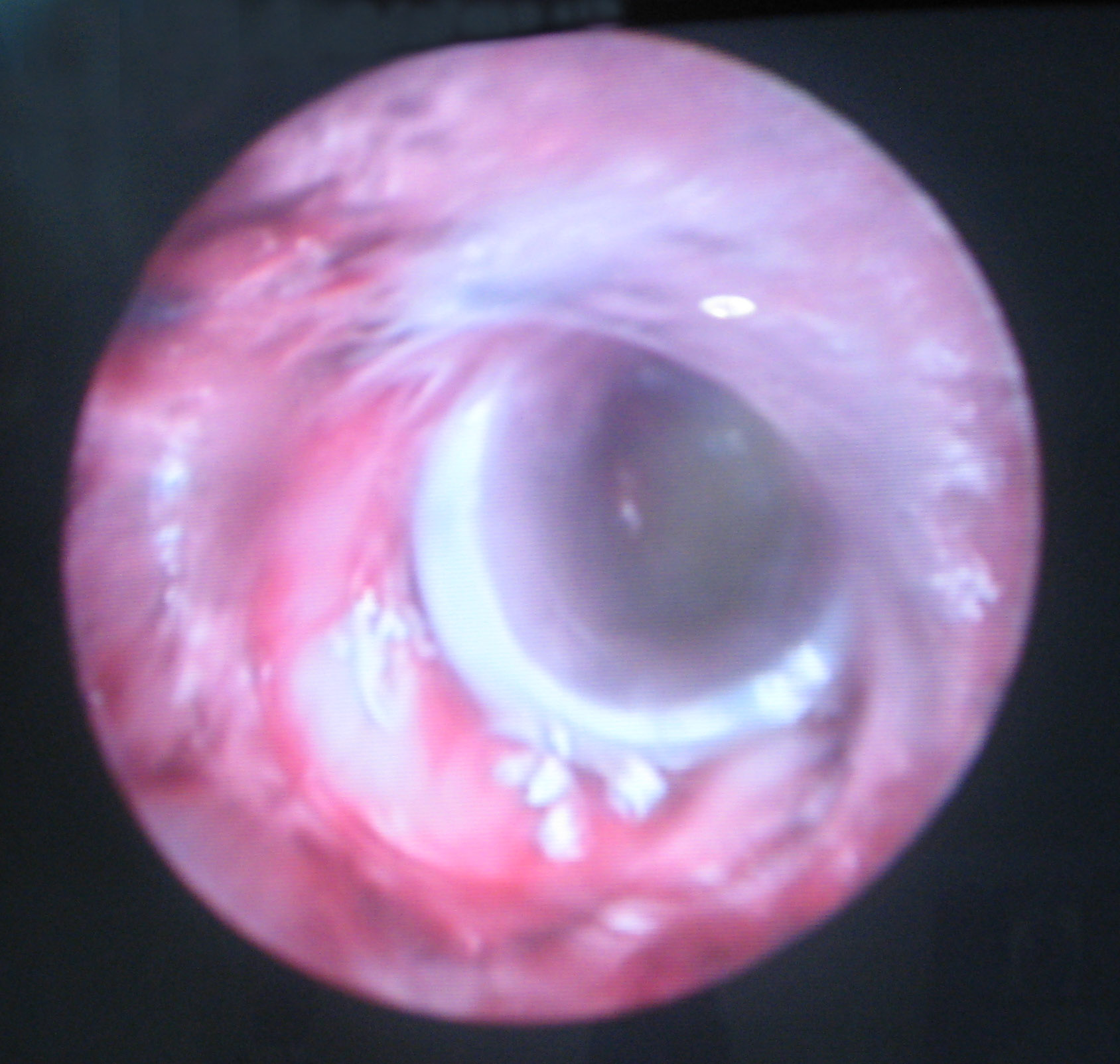 Stentde Dumon